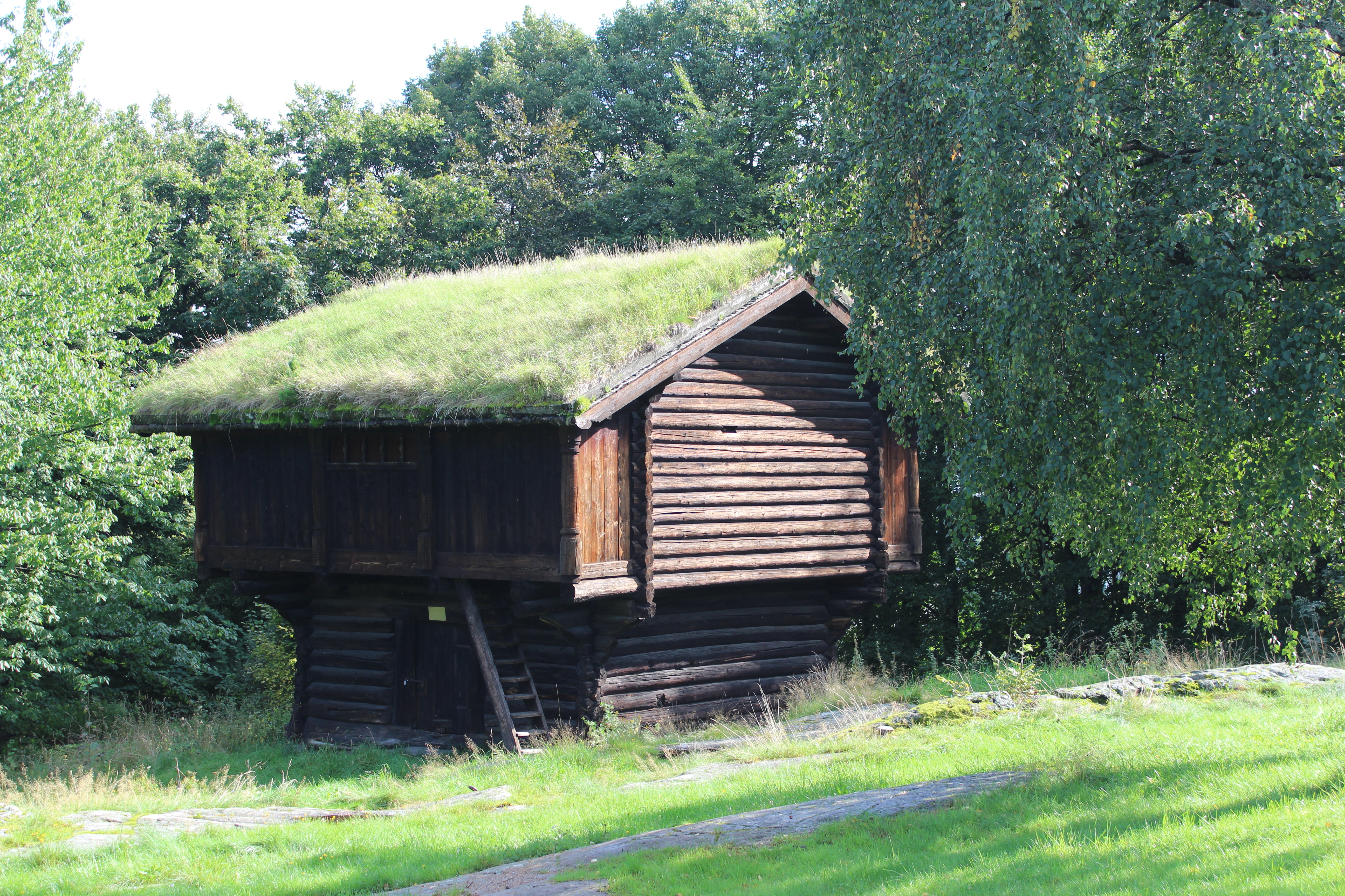 Heierstadloftet from Hof in Vestfold, Norway, dated to 1405–07.